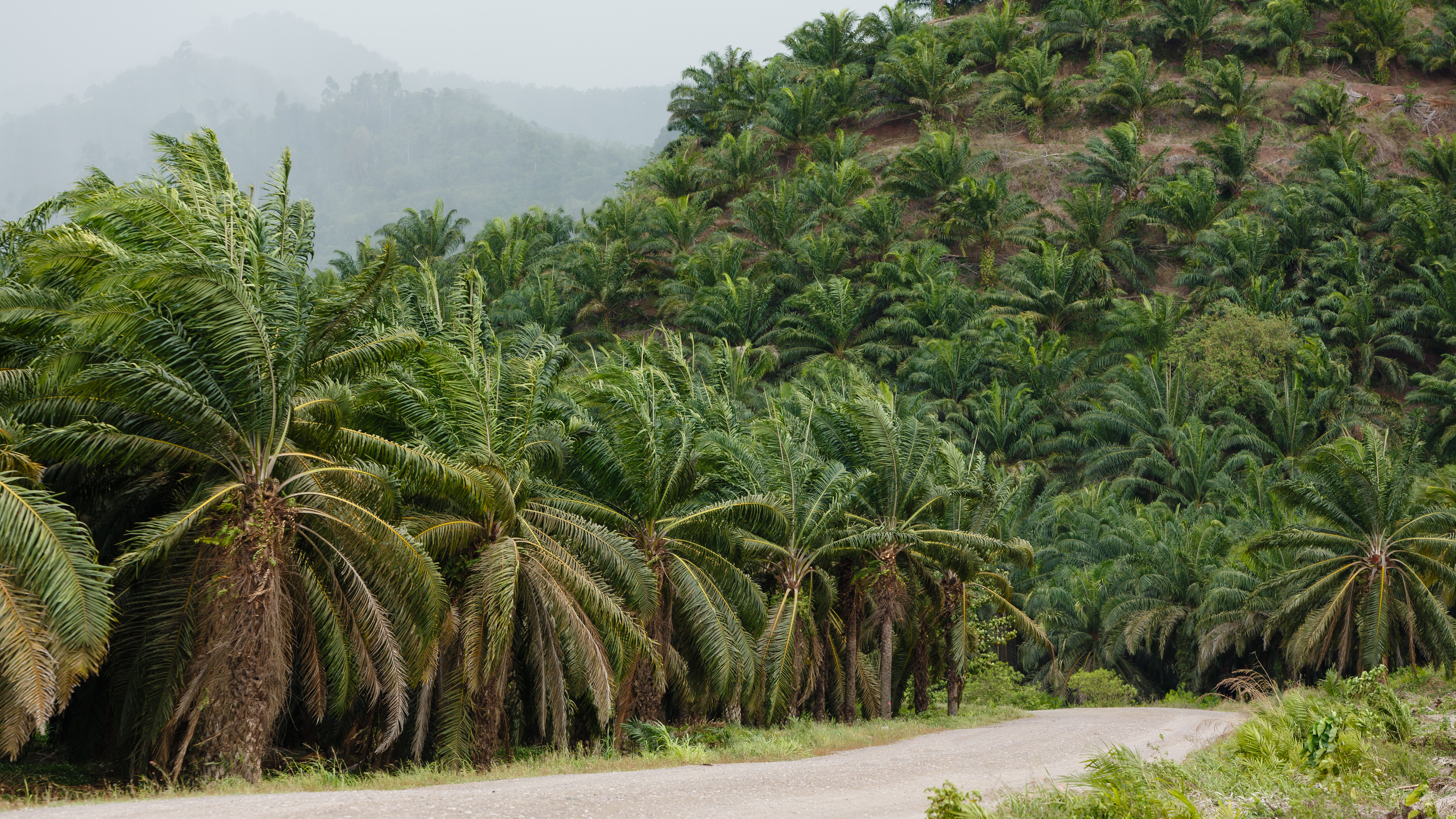 District Kunak, Sabah: Hills, densly grown over with oil palms.